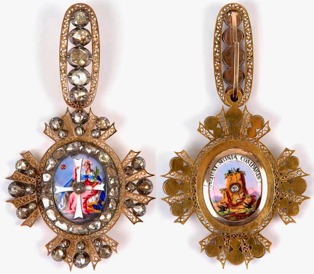 Order of St. Catherine